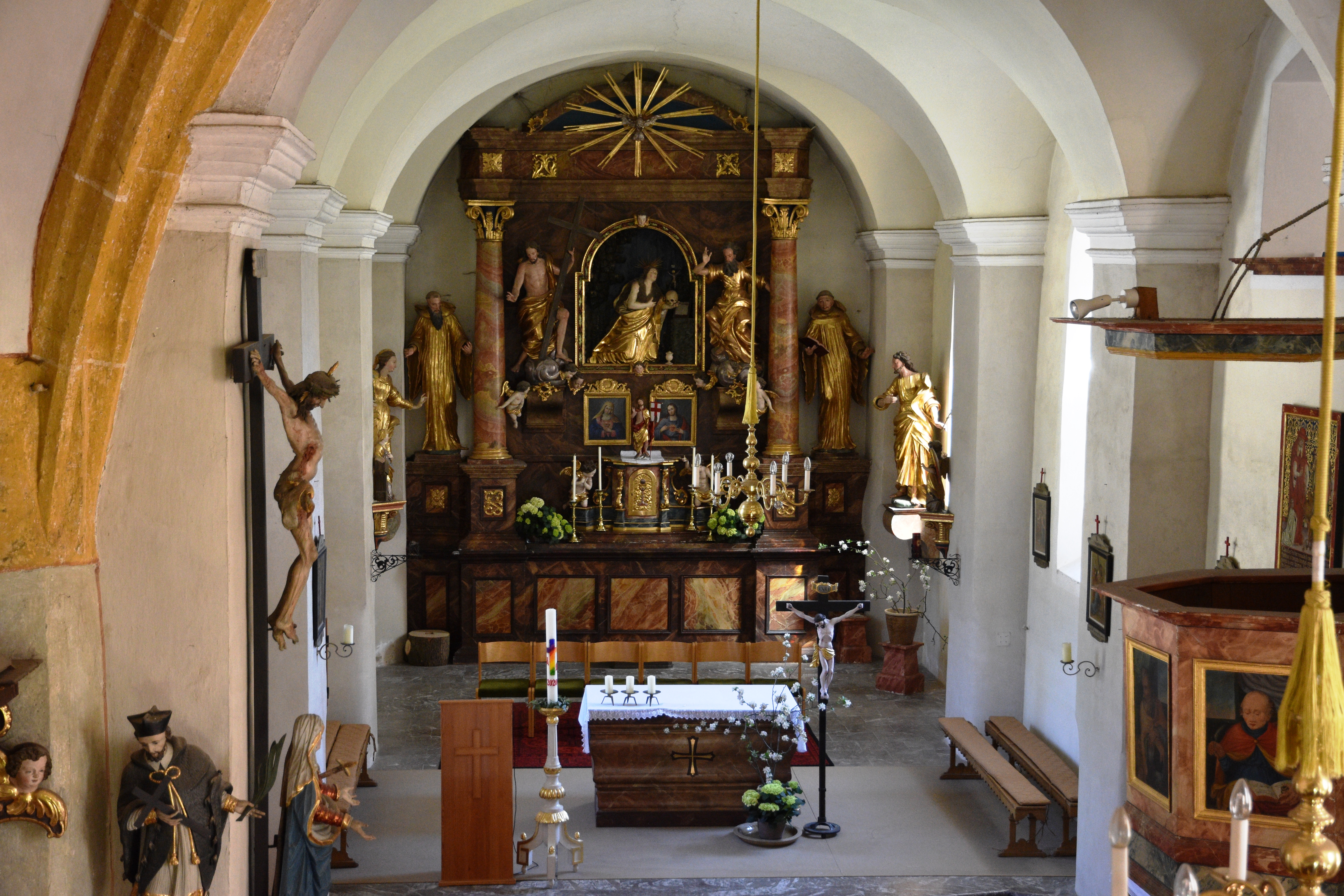 Church Kath. Pfarrkirche hl. Magdalena Tragöß Oberort Interior